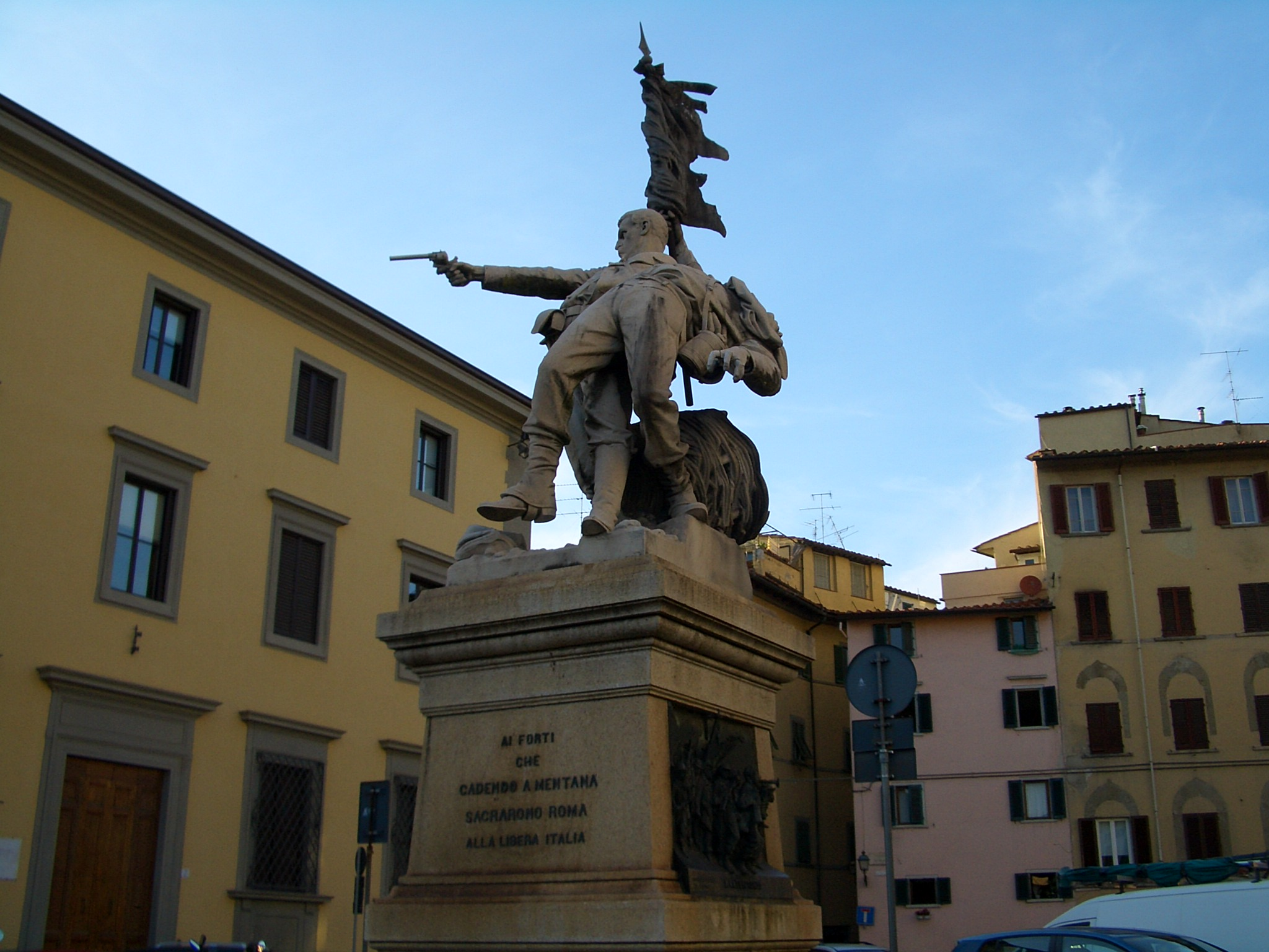 Monument to 150 fallen Garibaldi's freedom fighters in Piazza Mentana, in Florence, Italy. The text: "To the Brave who fell at Mentana, consecrating Rome to Free Italy."